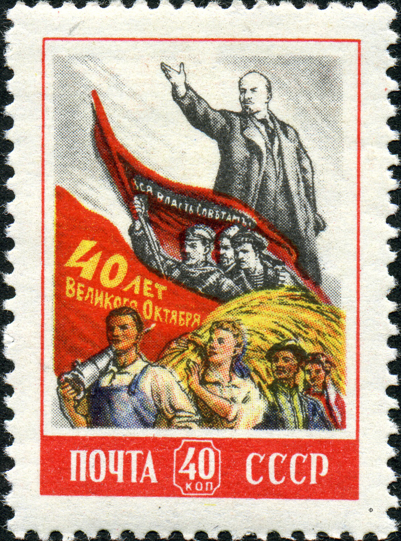 Soviet Union stamp, 40th anniversary of the October Revolution, victorious march of the October Revolution, from a placard by I. Toidze "Two flags - two epochs" (1957); 1957, 40 kop., used, CPA No. 2067.